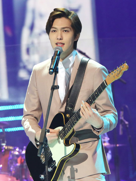 Lee Jong-hyun with CNBLUE in midst of recording for the Workers' Festival on April 4, 2014.